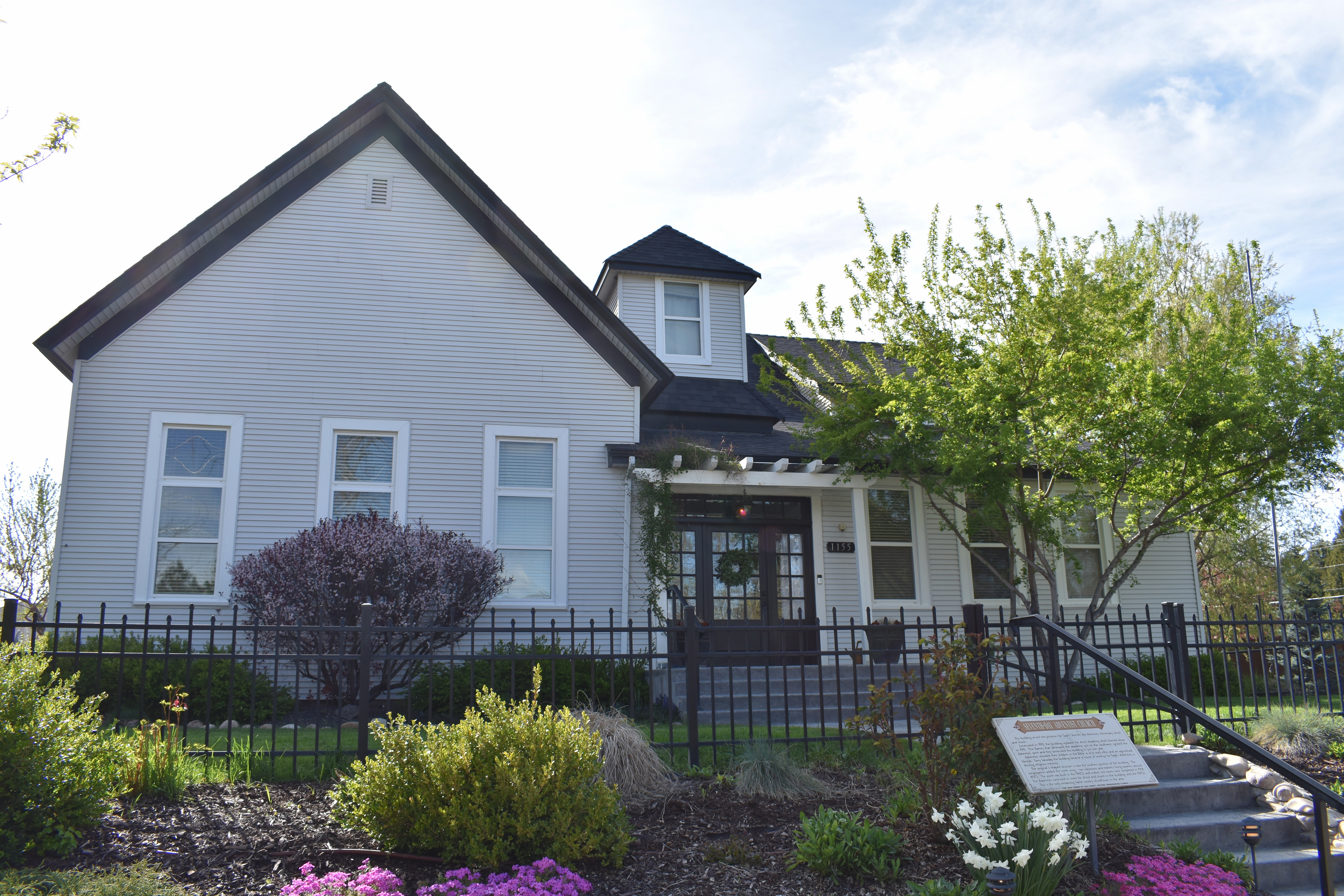 The Eagle Adventist Schoolhouse near Eagle, Idaho, was constructed in 1912 and is listed on the National Register of Historic Places.